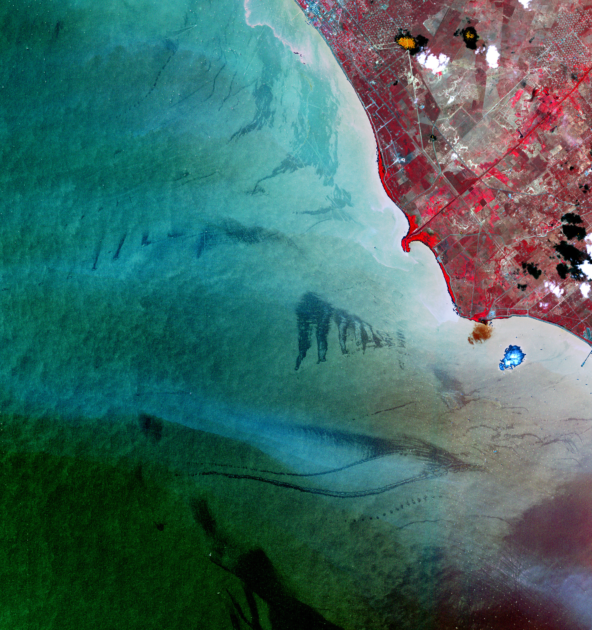 This false-colour (near-infra-red, red, green) image has been processed to emphasize details on the lake’s surface. The scene shows oil slicks (the various dark patches) in the south-eastern portion of the lake. The slicks come from leaks in the various oil production and storage platforms located on Lake Maracaibo. The water and land components of this scene were processed and stretched separately and then “stitched” back together into one image; this stitching is evident along the shoreline. On land, the red colour indicates vegetated areas, the bluish areas show paved surfaces, and the browns are bare land. This scene is 15 meters per pixel and spans an area of 900 square km.